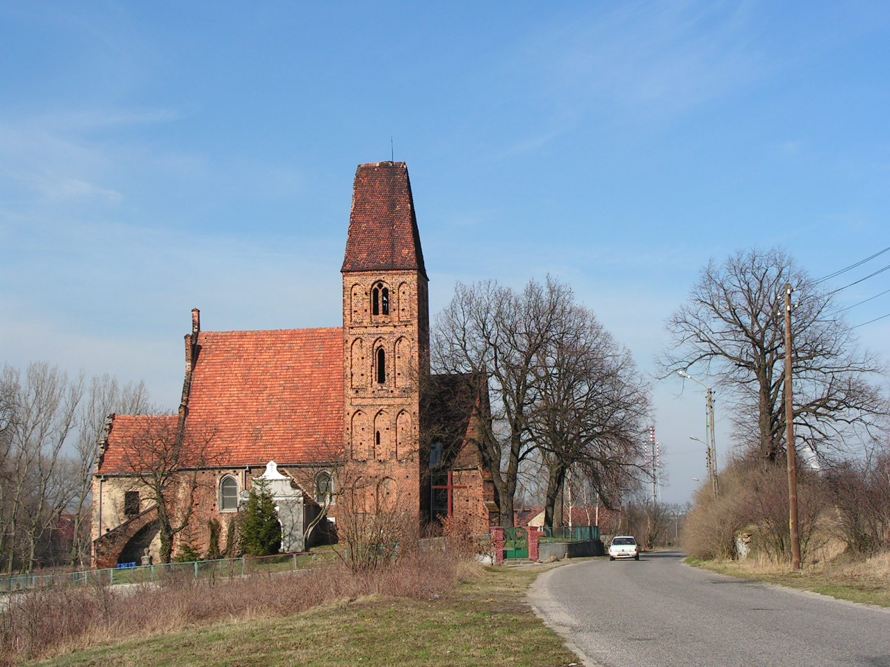 Żukowice (Lower Silesian Voivodeship), Church of St Jadwiga of Poland.